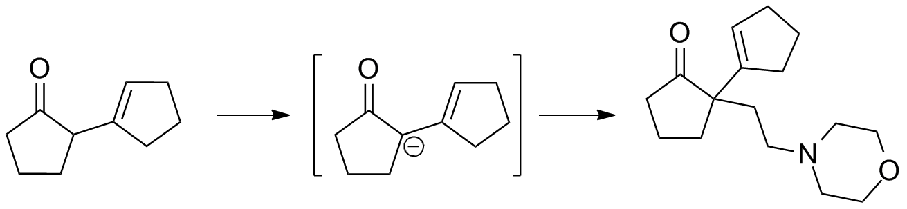 DE1059901